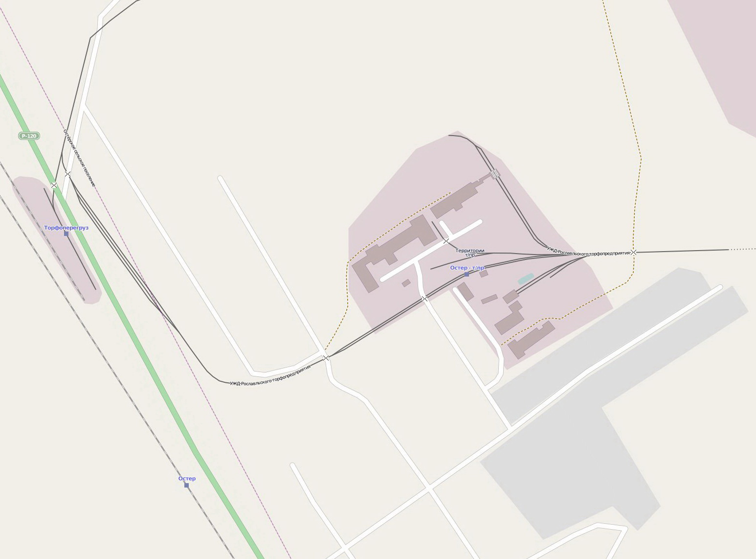 Roslavlskoye peat railway